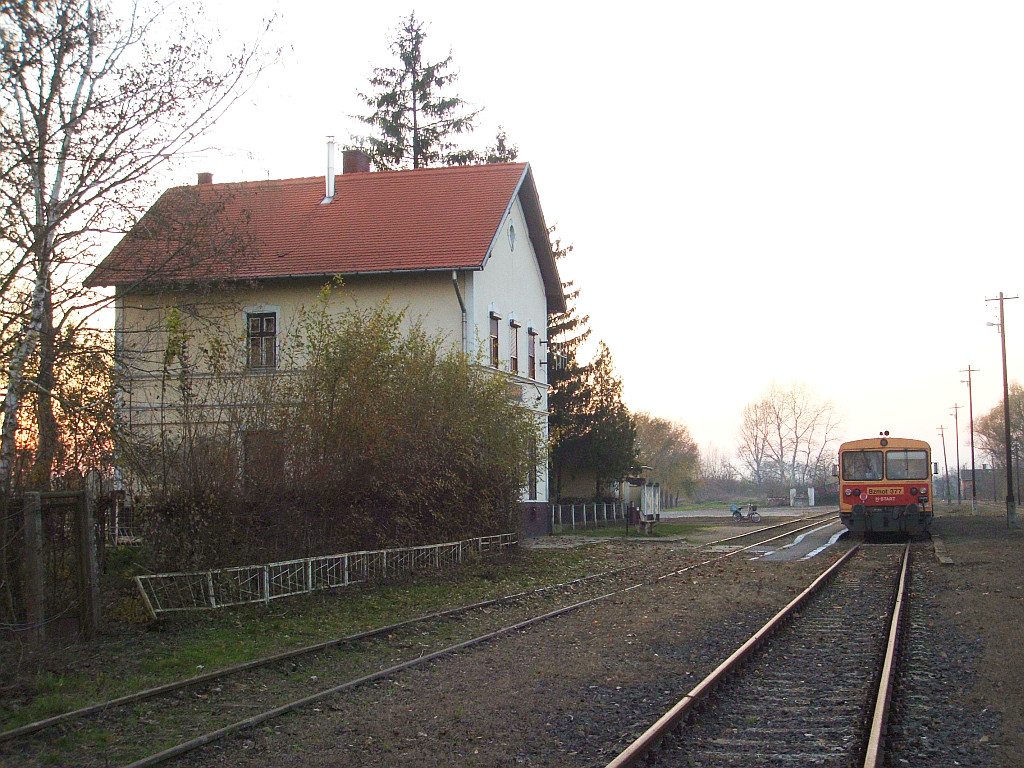 Létavértes's train station (Hajdú-Bihar county)